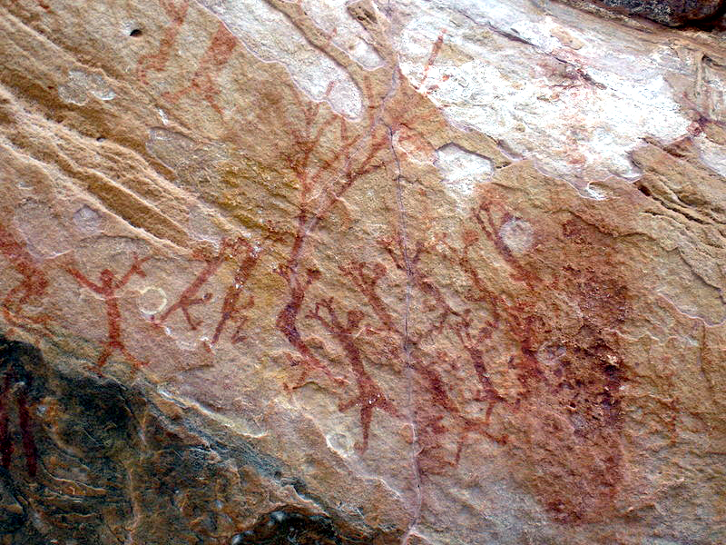 Tree ritual / worshiping?